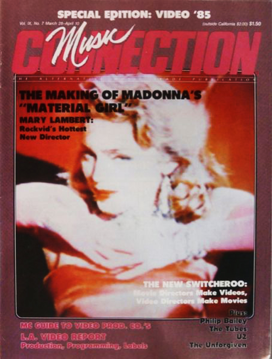 Music Connection Magazine March 1985 cover with Madonna.